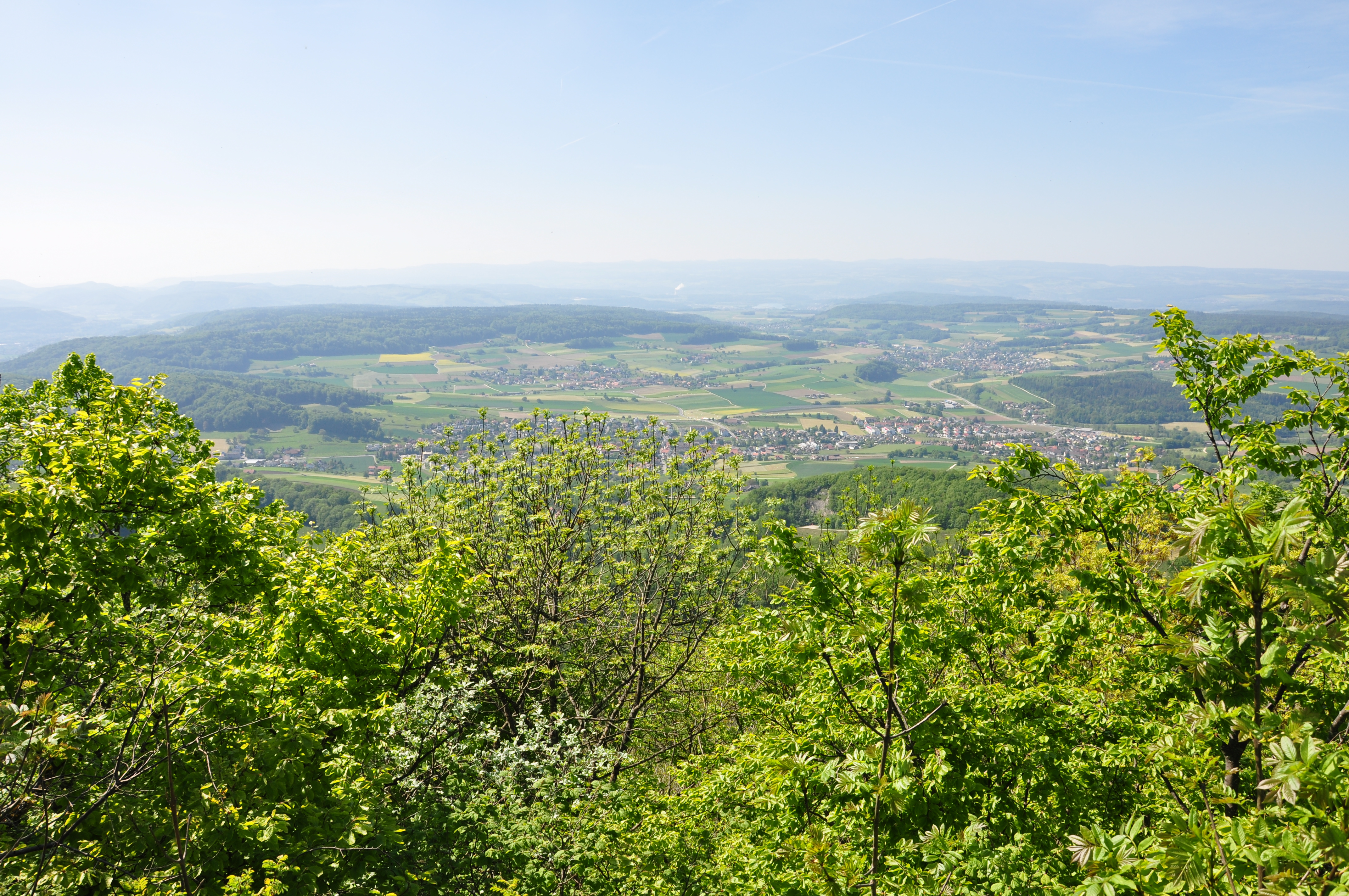 Ehrendingen as seen from Burghorn respectively Jura-Höhenweg on Lägern (Switzerland)